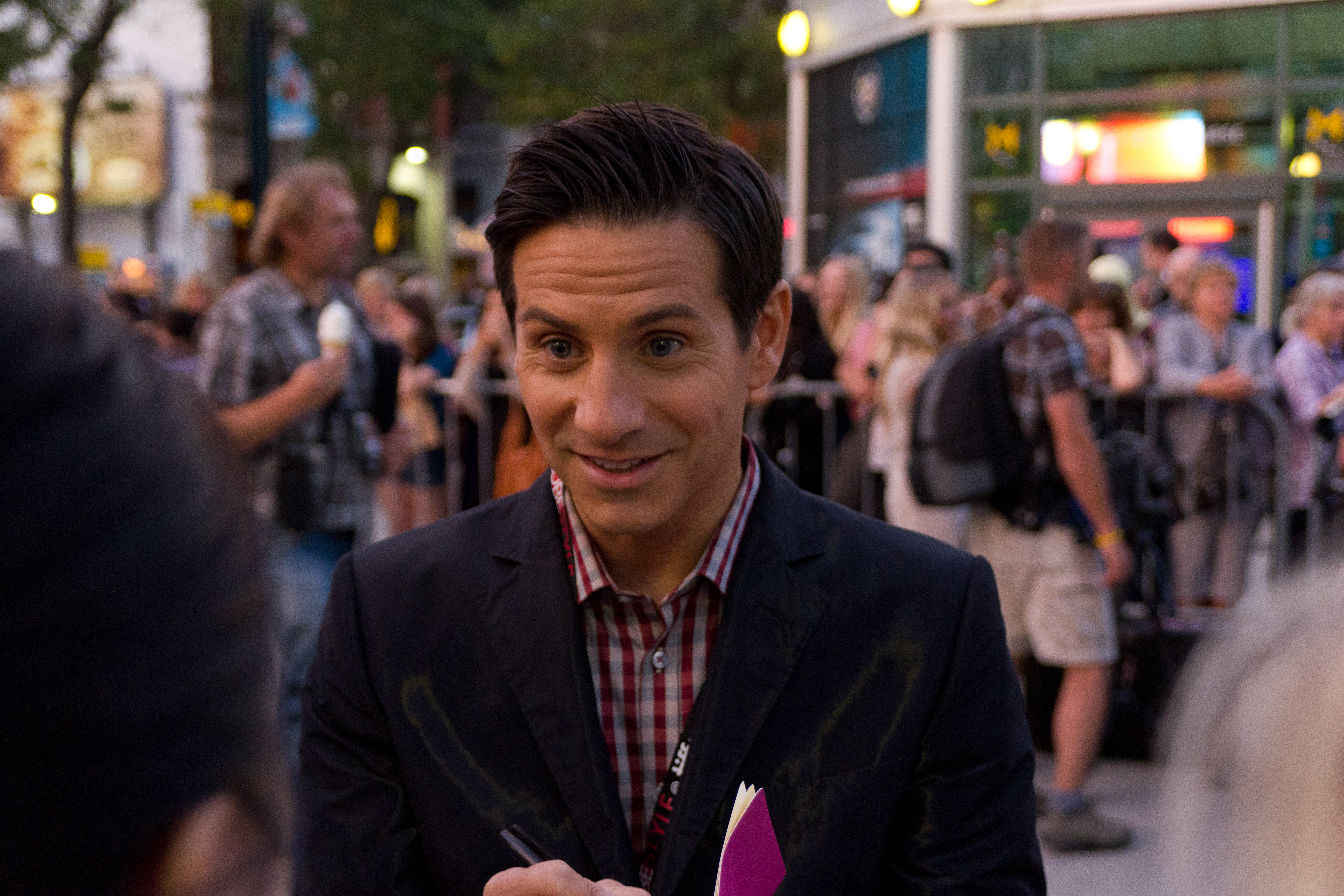 Rick Campanelli signing an autograph at the 2011 Toronto International Film Festival